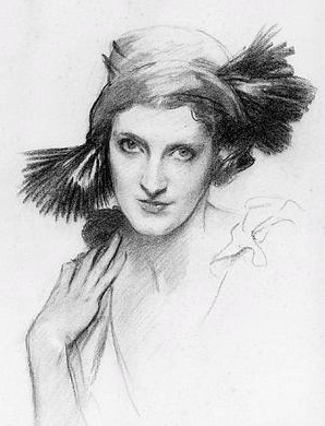 Cropped and adjusted